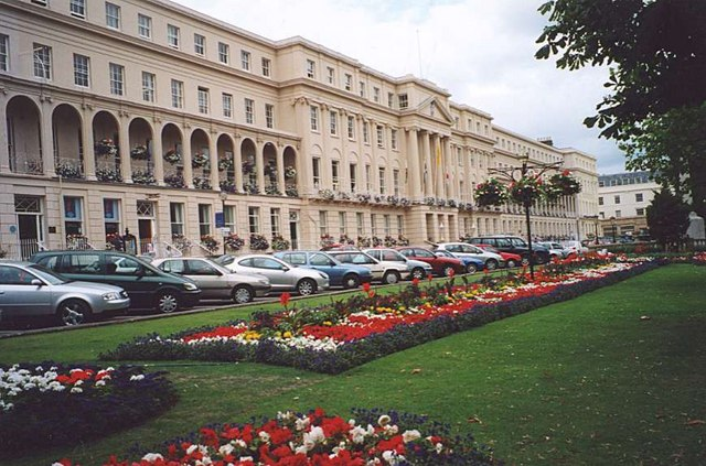 Neoclassical building and park on the Promenade — in Cheltenham, Gloucestershire.